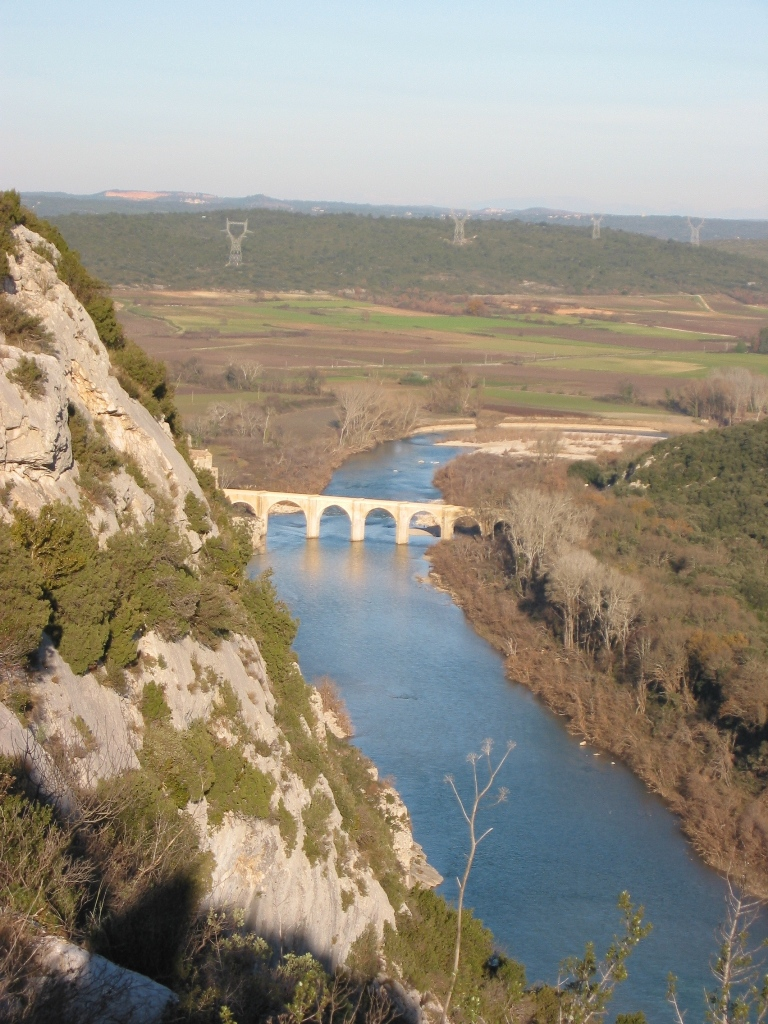 The river Gardon at the Pont Saint-Nicolas. December, 2003. Photo taken by contributor